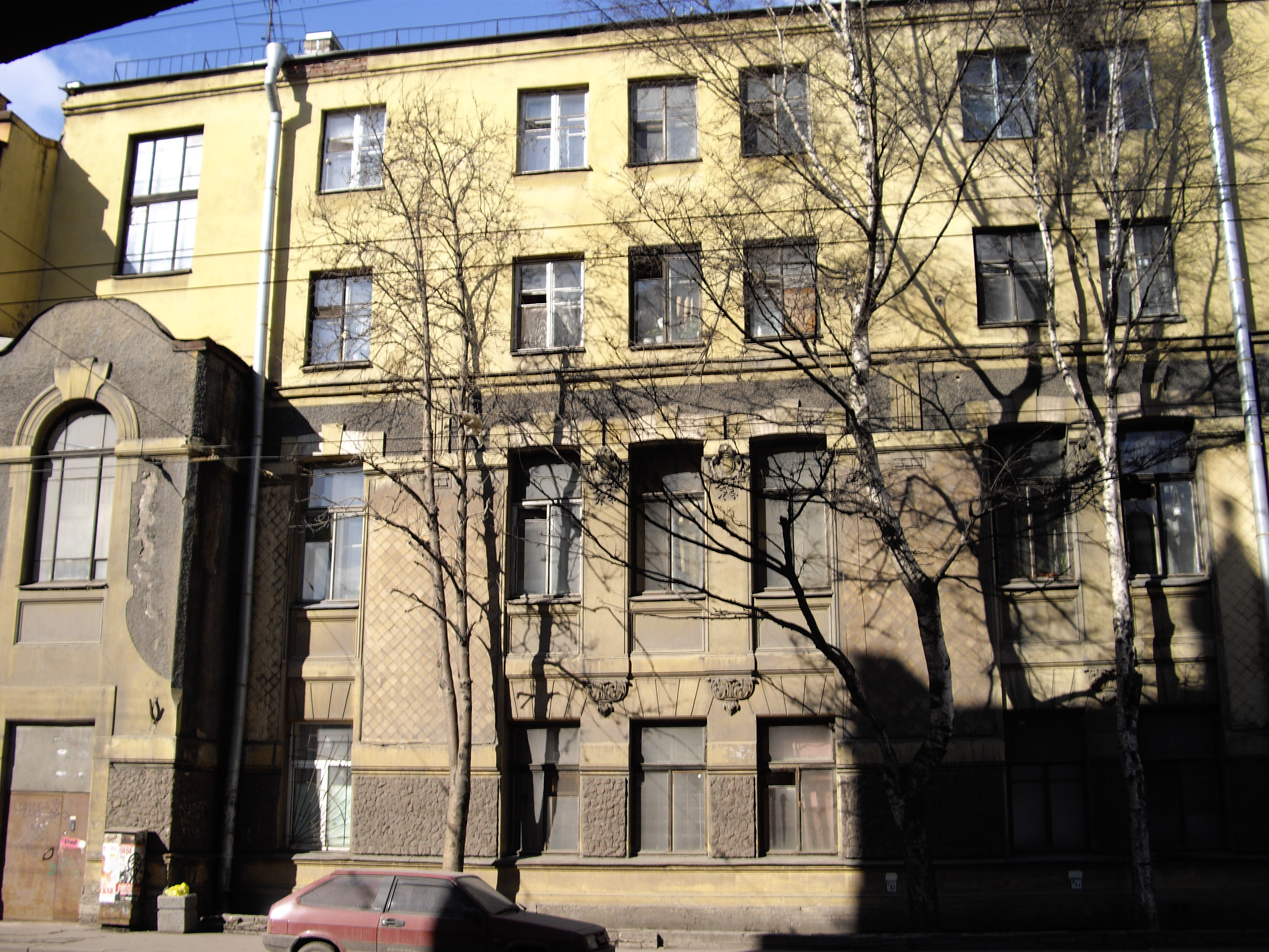 26, Bolshaya Pushkarskaya street (Saint Petersburg, Russia). Dmitry Mendeleev's house (1900, architect Alexander von Gogen).